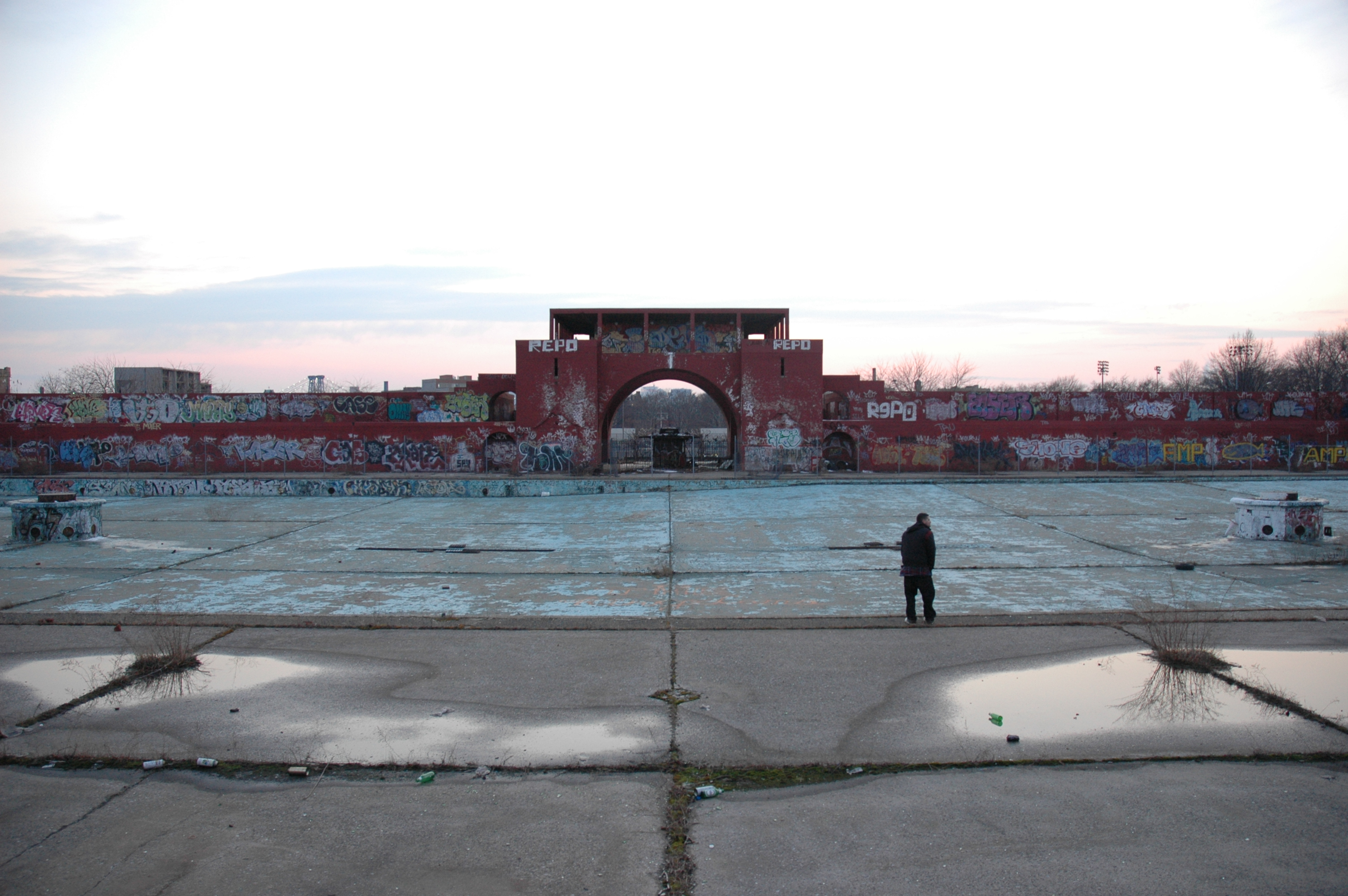 just chillin' by the pool in McCarren Park, Brooklyn, NYC